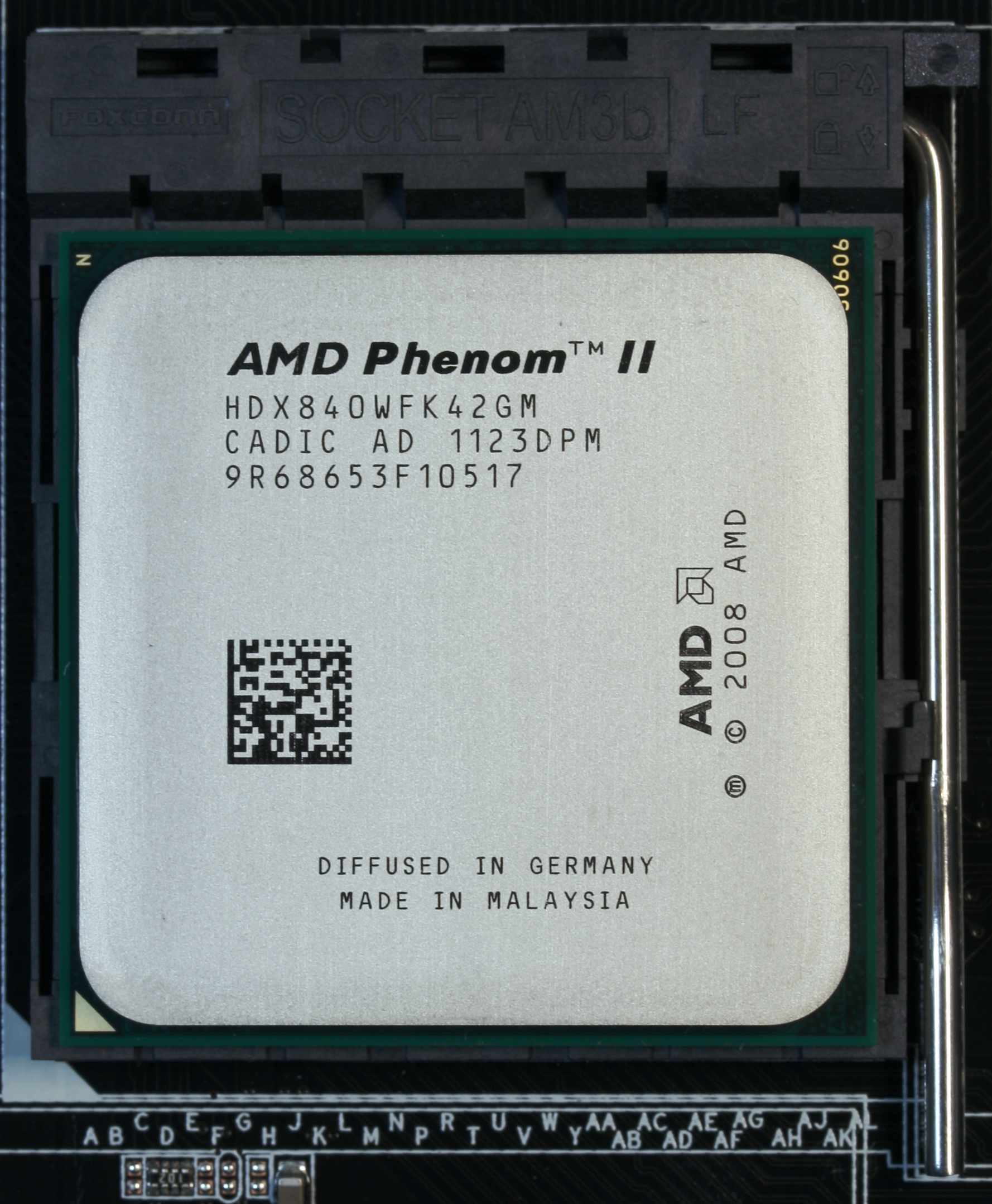 The top side of a closed AM3+ CPU socket with an inserted AMD Phenom II X4 840 (HDX840WFK42GM) CPU